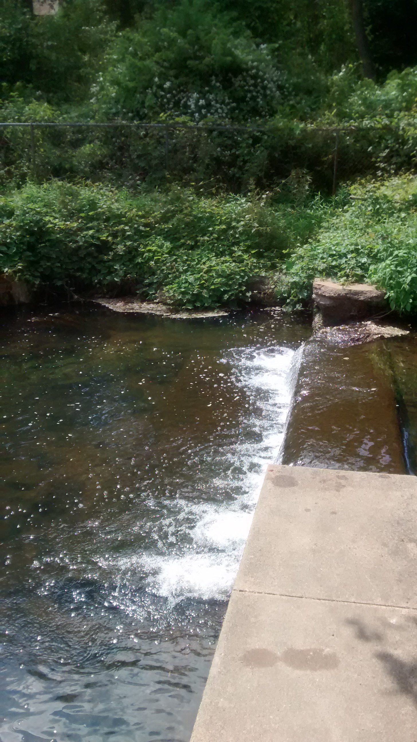 A waterfall on Little Darby Creek